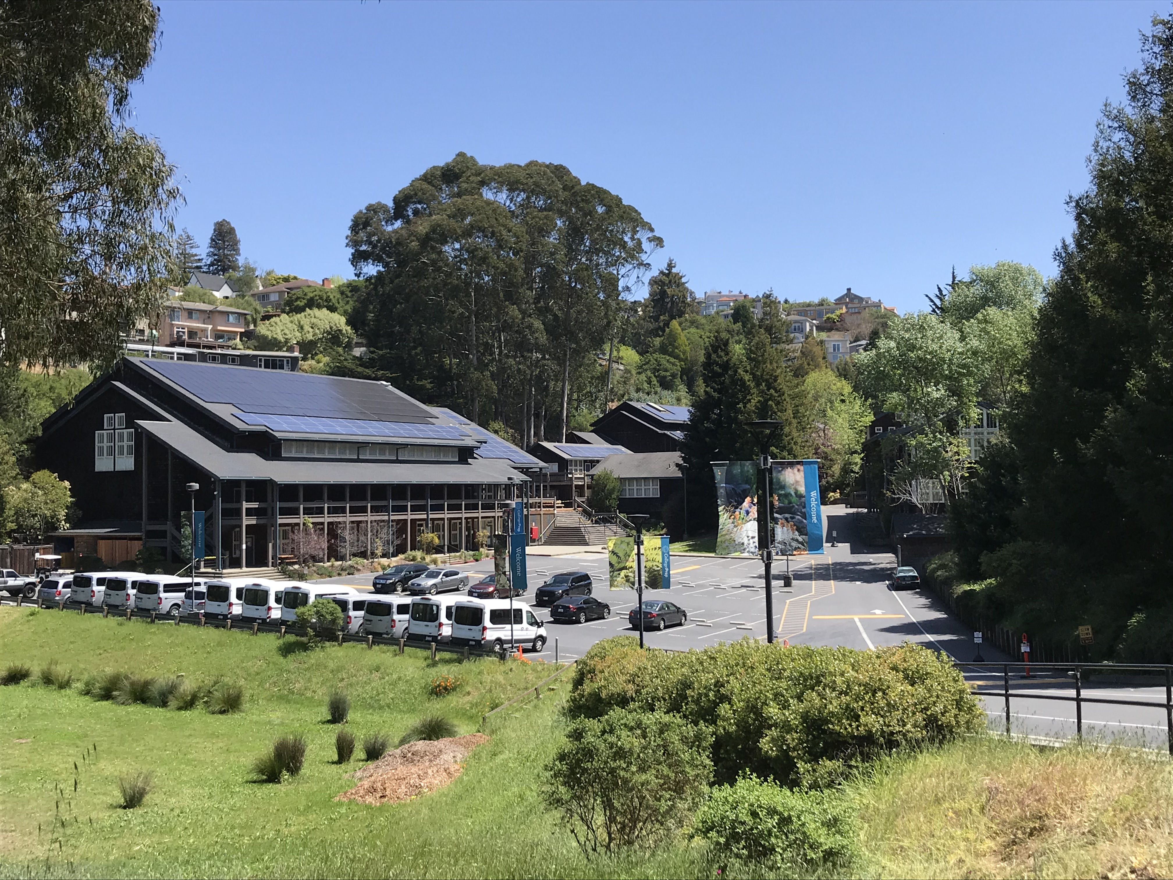 The College Preparatory School campus in Oakland, CA, USA